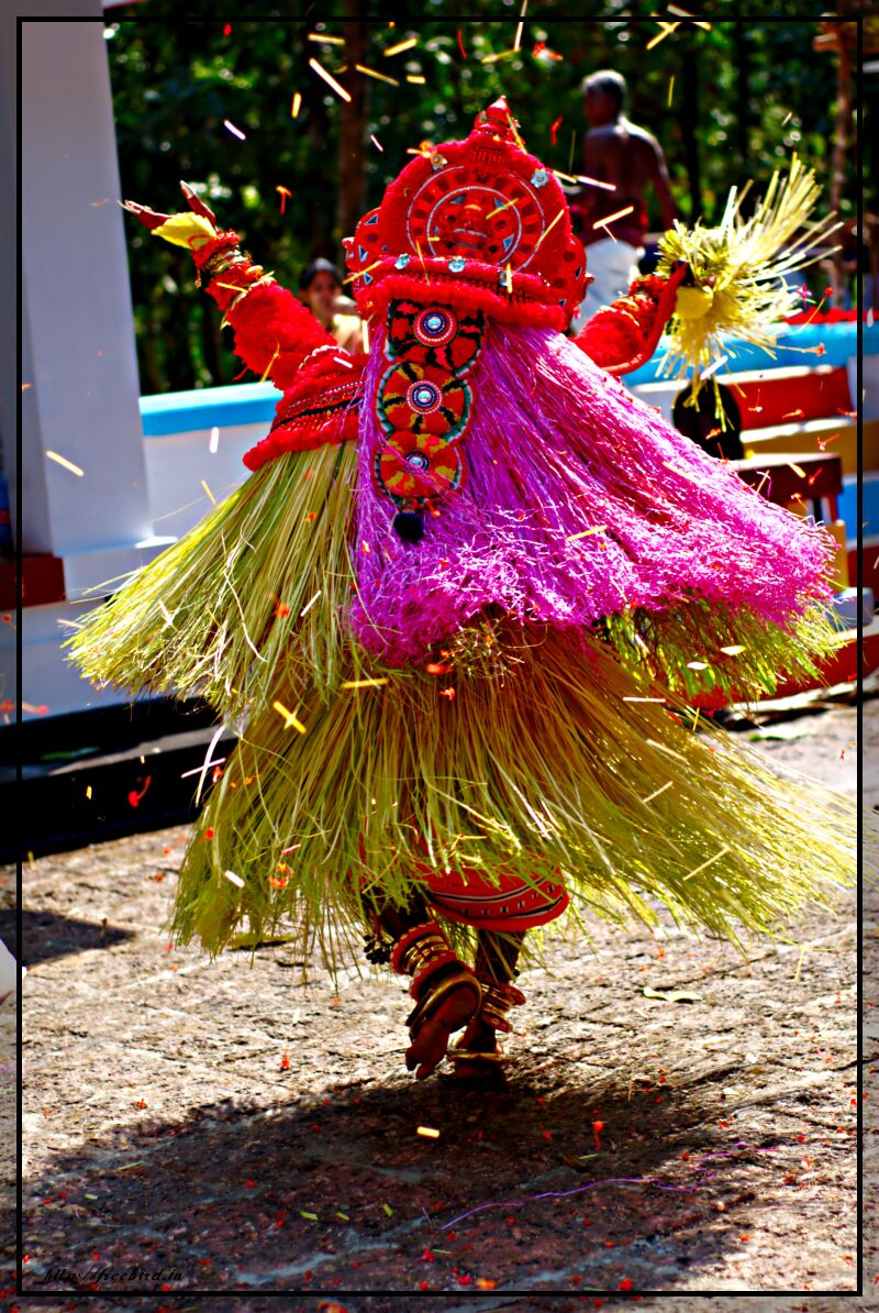 Vishnu moorthy theyyam @ naduvilathu kottam, pilathara, payyannoor, kannur. Kottam is a collection of 2 - 3 temples which is normally called in other parts of kerala. വിഷ്ണു മൂര്ത്തി തെയ്യം. കണ്ണൂരില് പയ്യന്നൂരിനടുത്തുള്ള പിലാത്തറയിലെ നടുവിലത്ത് കോട്ടത്തില് നിന്നും. taken with a 50mm @ 1/1250s. This is my first experience with any subject which is this much fast and fierce. Due to some unknown reason I was afraid and uneasy in the begining. This is one of those not so comfortable, somehow managed kinda shots. Theyyam (theyyattam) is a ritual dance form popular in northern Kerala. Theyyam is normally performed in temples/Kavu/kOOttam mostly in Kannore and Kasrgode districts in few places in Kozhikode district. The name theyyam is derived from the malayalam name for God (daivam). During the ritual the artist is considered as God and they complain ask for blessings as if they are talking to God.